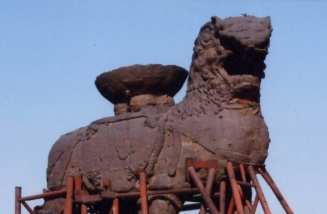 Ancient iron lion in suburban of Cangzhou, Hebei Province